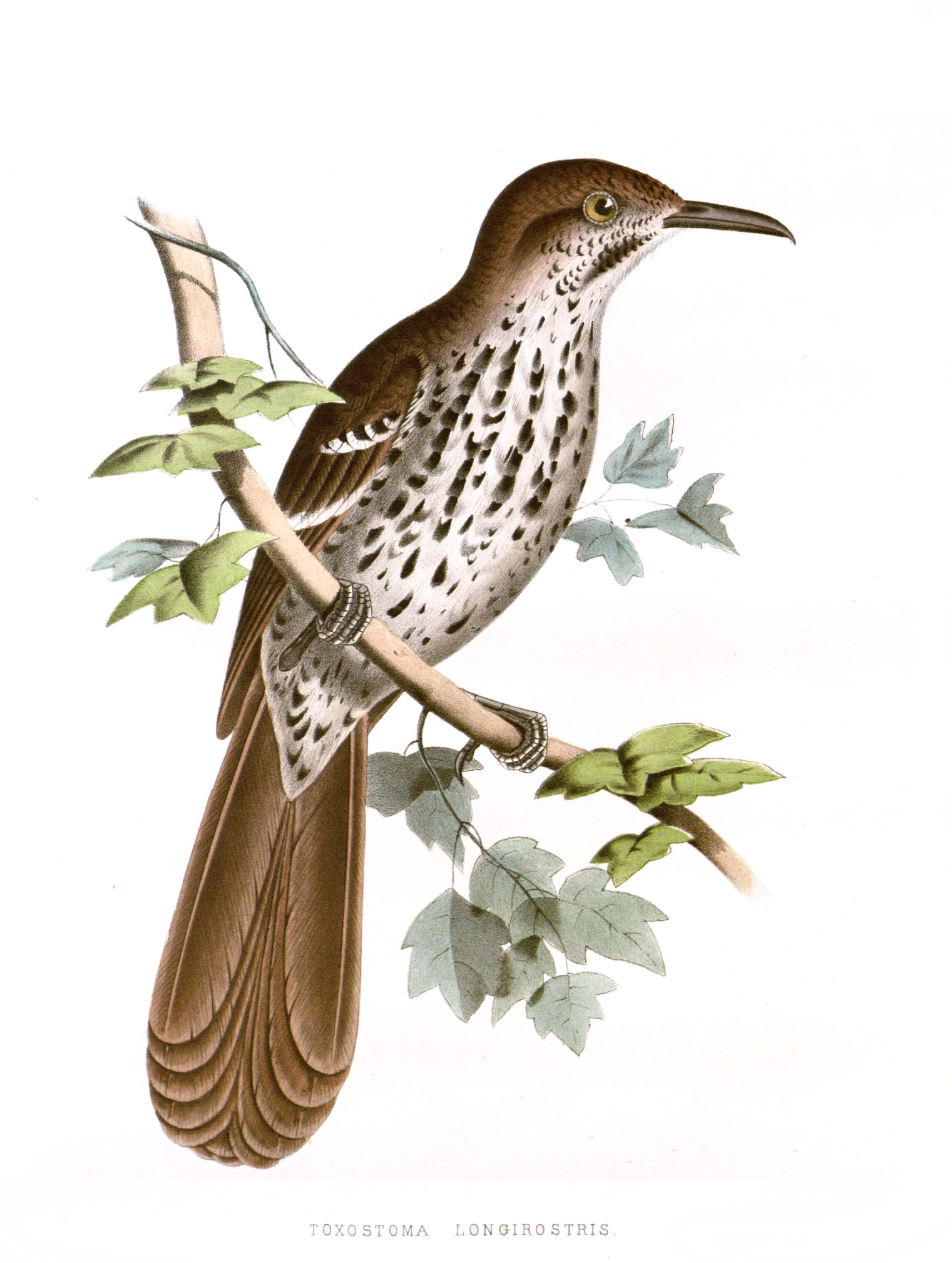 Adult Long-billed Thrasher, Toxostoma longirostre senetti, illustration from Birds of the Boundary